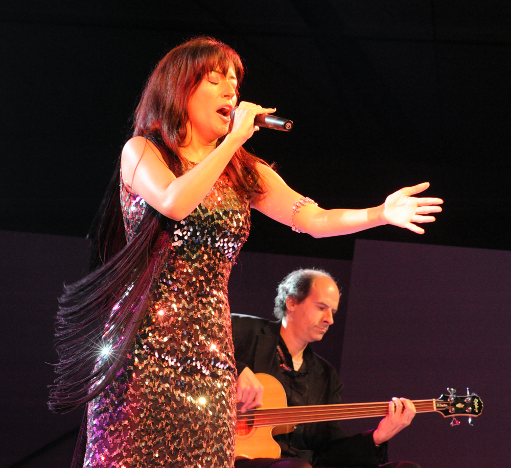 Fado singer Ana Moura performing in Warszawa during the 5th Cross Culture Festival